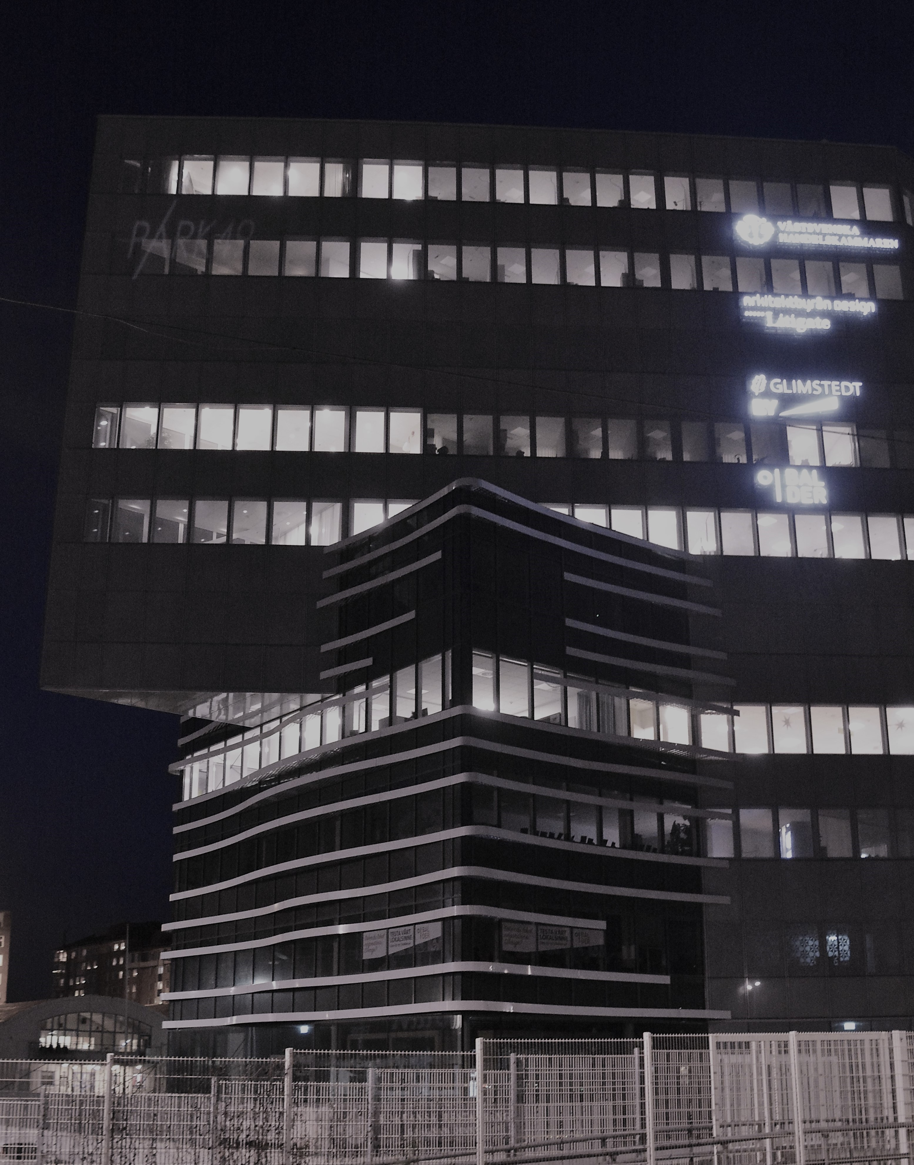 Park 49, Parkgatan i Göteborg